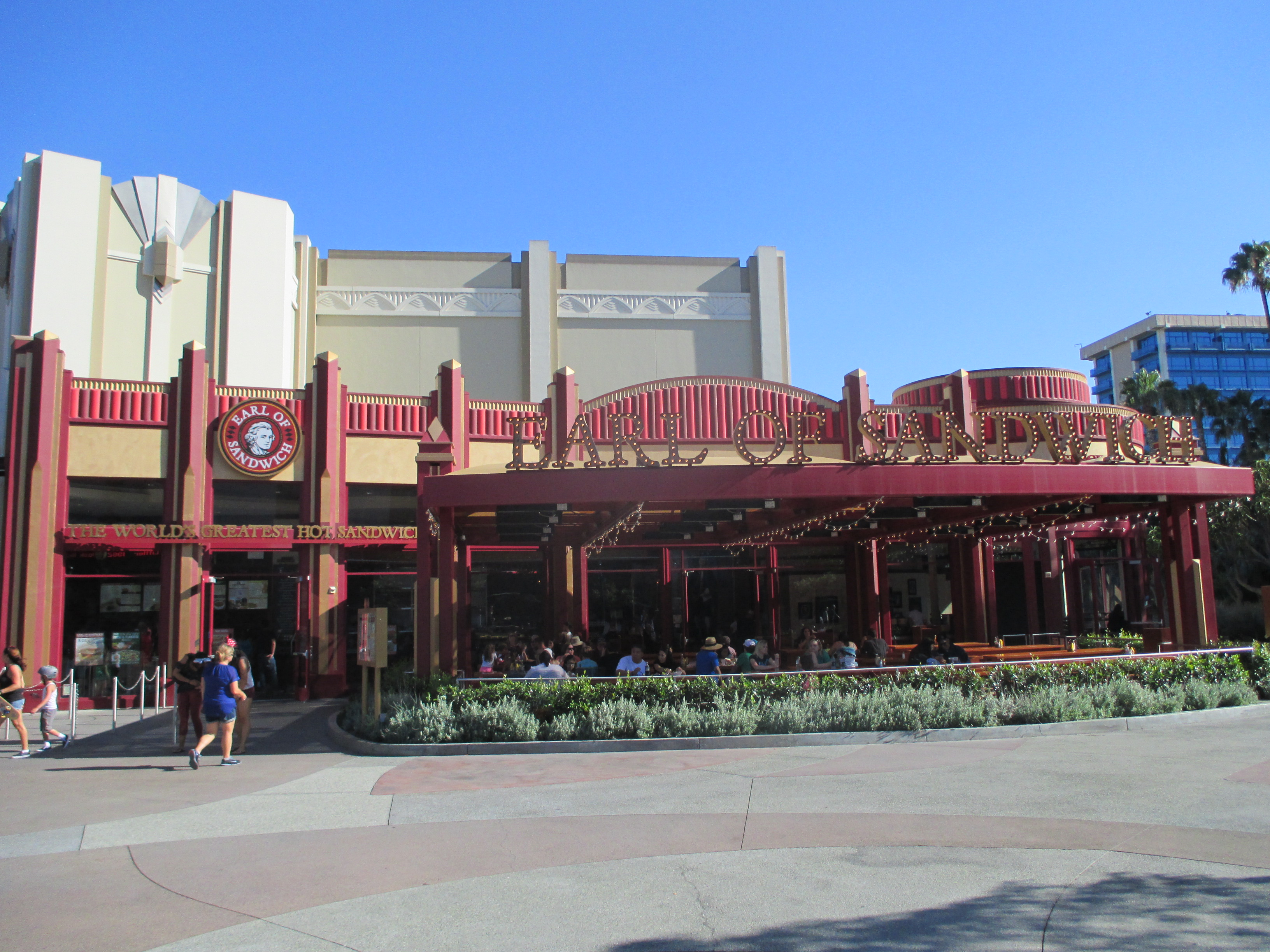 Earl of Sandwich restaurant in Downtown Disney District at Disneyland Resort.